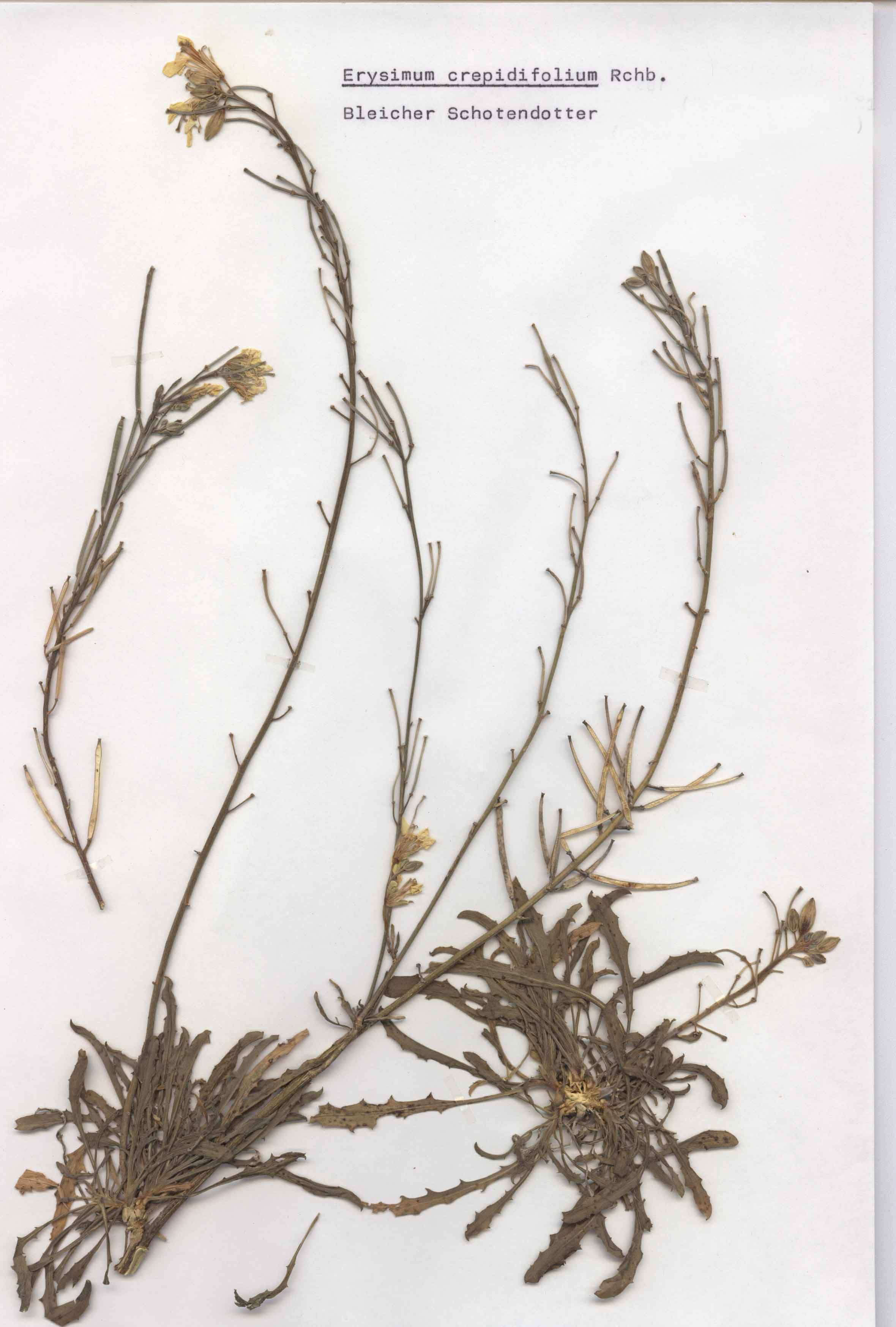 Erysimum crepidifolium (Franken, Germany), Own Herbarium specimen